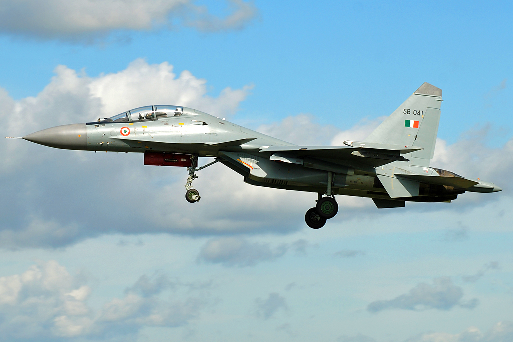 Sukhoi SU-30MKI operated by Indian Air Force. Taken at RAF Waddington.